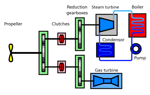 Simplified diagram of a COSAG marine propulsion plant. (Own work). Combined steam and gas